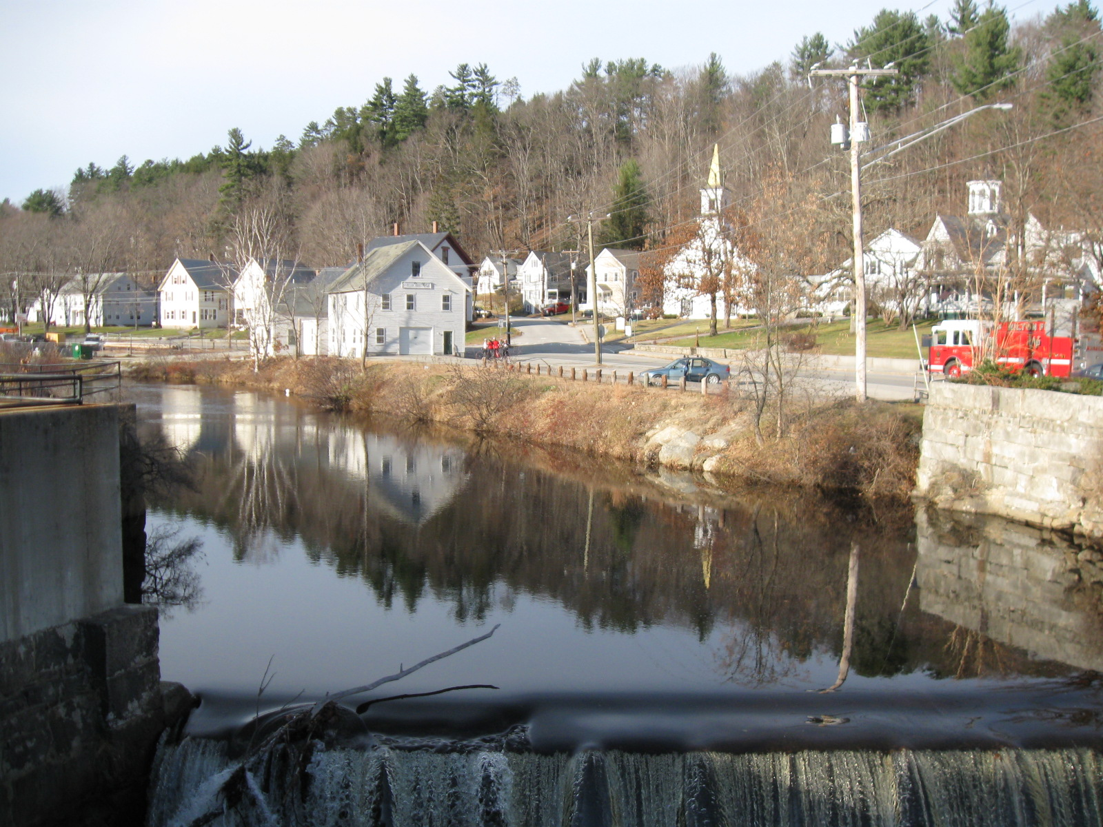 Stony Brook (Souhegan River) near its mouth in Wilton, New Hampshire. Photo by Ken Gallager, November 26, 2011.